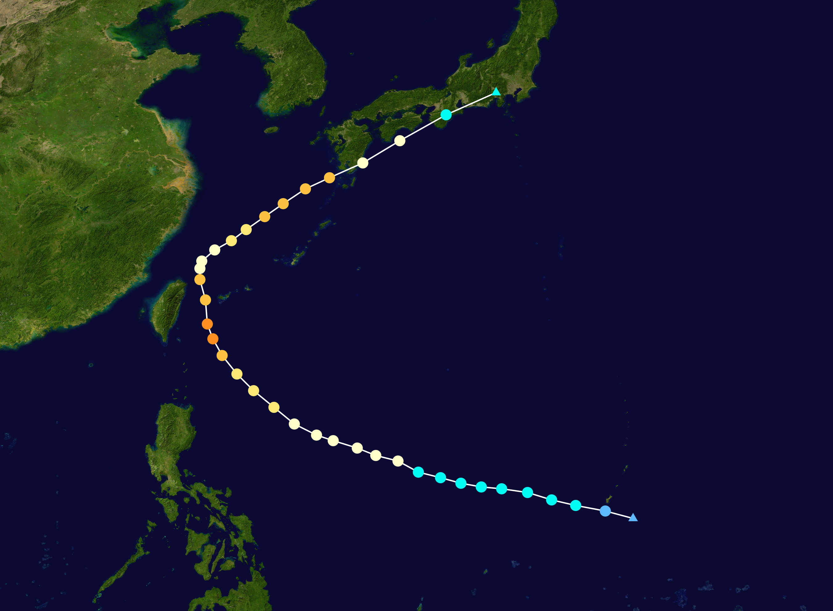 Track map of Typhoon Malakas of the 2016 Pacific typhoon season. The points show the location of the storm at 6-hour intervals. The colour represents the storm's maximum sustained wind speeds as classified in the Saffir–Simpson scale (see below), and the shape of the data points represent the nature of the storm, according to the legend below. Saffir–Simpson scale Tropical depression≤38 mph≤62 km/h Category 3111–129 mph178–208 km/h Tropical storm39–73 mph63–118 km/h Category 4130–156 mph209–251 km/h Category 174–95 mph119–153 km/h Category 5≥157 mph≥252 km/h Category 296–110 mph154–177 km/h Unknown Storm type Tropical cyclone Subtropical cyclone Extratropical cyclone / Remnant low / Tropical disturbance / Monsoon depression